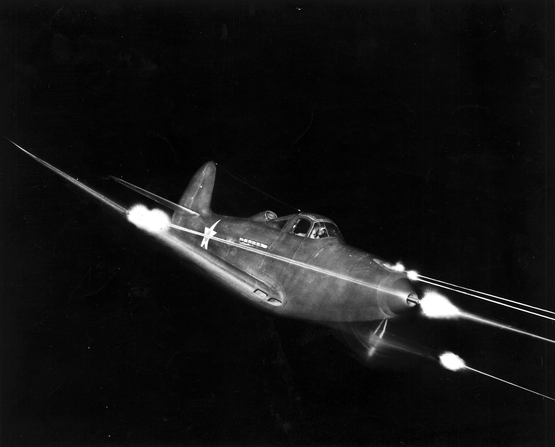 Description: Bell P-39 Airacobra in flight firing all weapons at night. (U.S. Air Force photo)